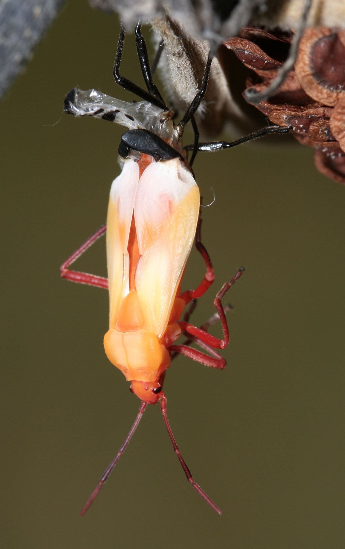 Emerging adult of a Large Milkweed Bug